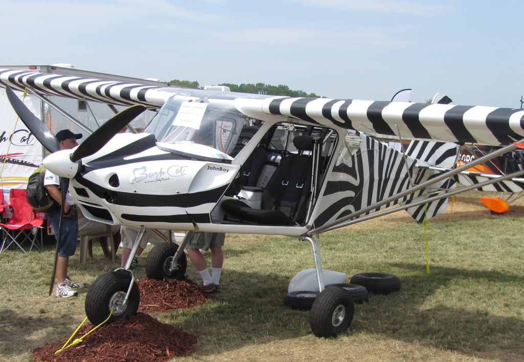 Rainbow Skyreach Bush Cat